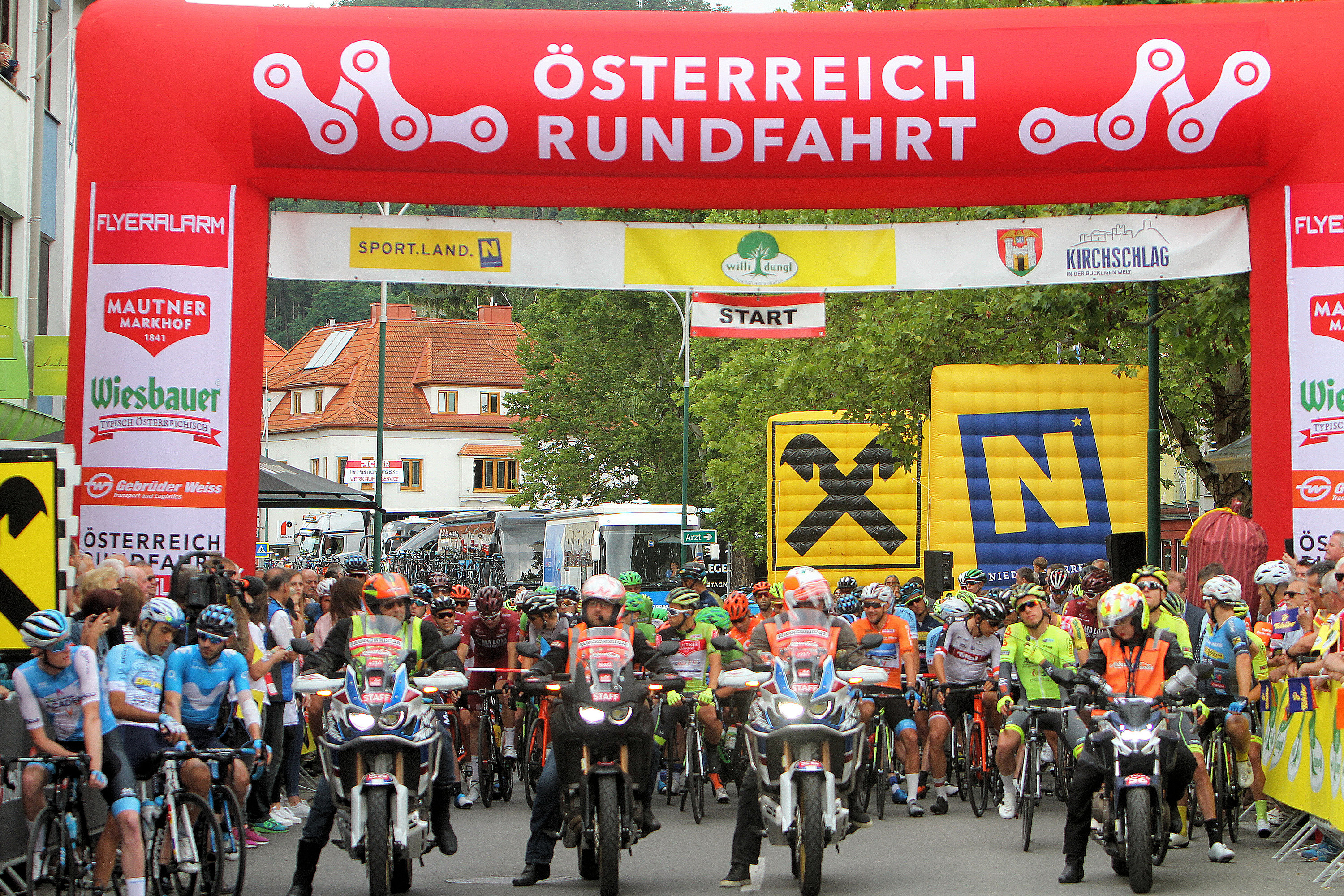 2019 Tour of Austria 3rd stage from to at 2019-07-09. – The photo shows the start to the 3rd stage in Kirchschlag in der Buckligen Welt.